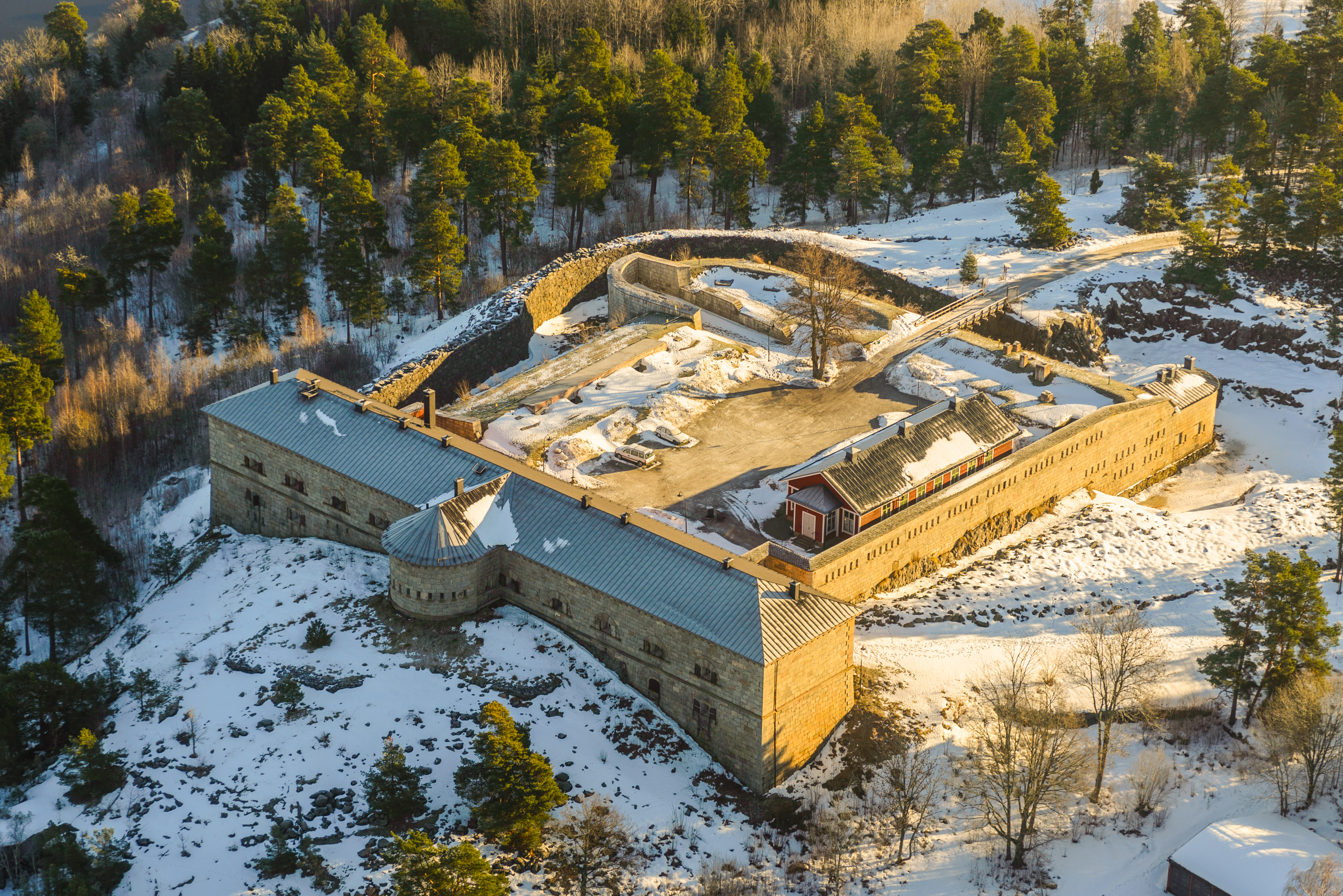 Rindö